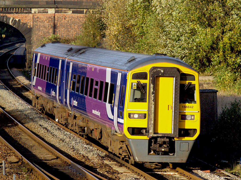 Northern Rail (leased from Angel Trains) former British Railways BREL Limited class 158/0 two car diesel-hydraulic multiple unit number 158842 of Neville Hill T&RSMD approaches Castleton East Junction on the Up Main line forming the 15:08 (SX) Leeds to Manchester Victoria (2M40). Friday 24th October 2008